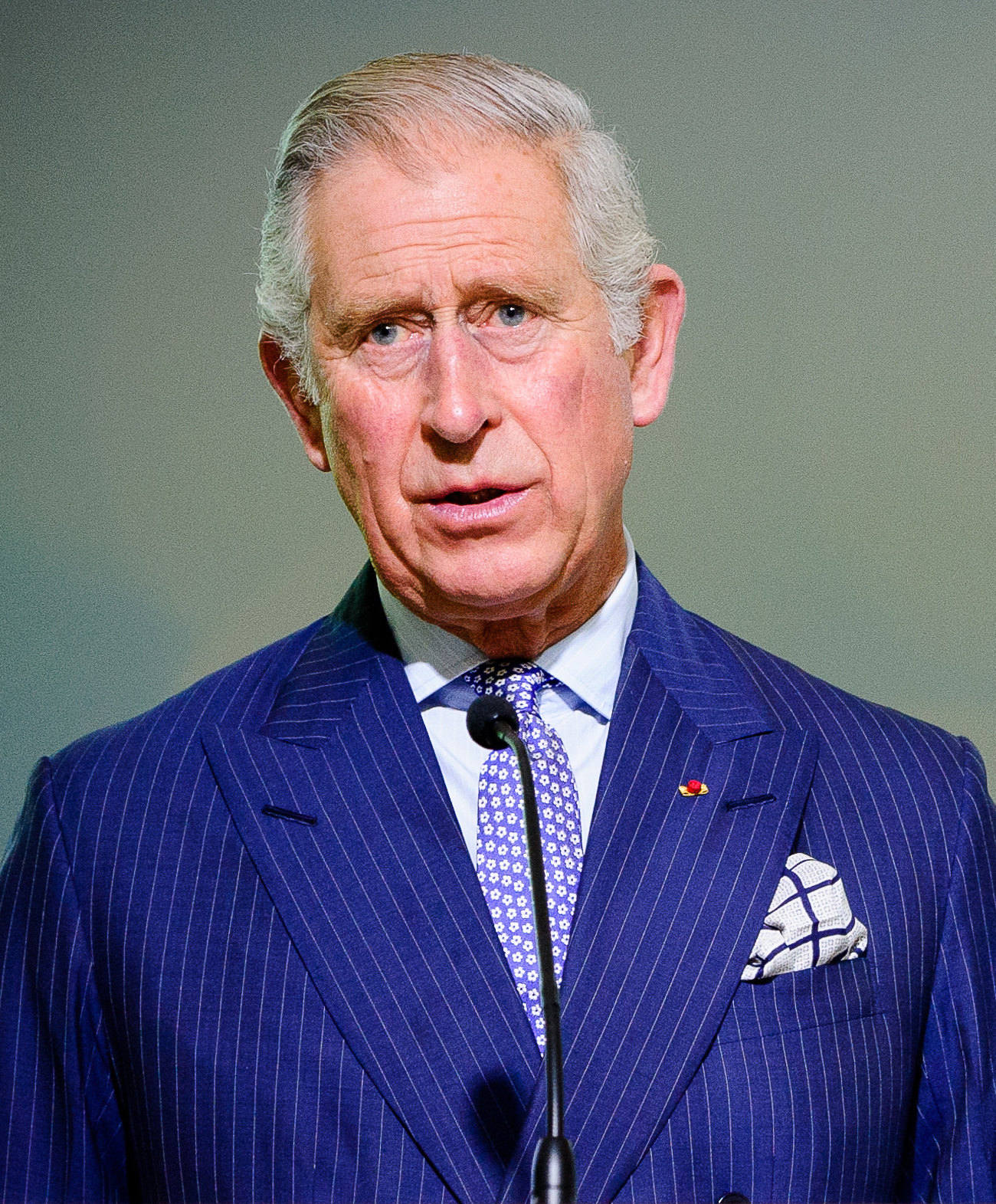 Prince Charles speaking at the 2015 United Nation Climate Change Conference - COP21 (Paris, Le Bourget)